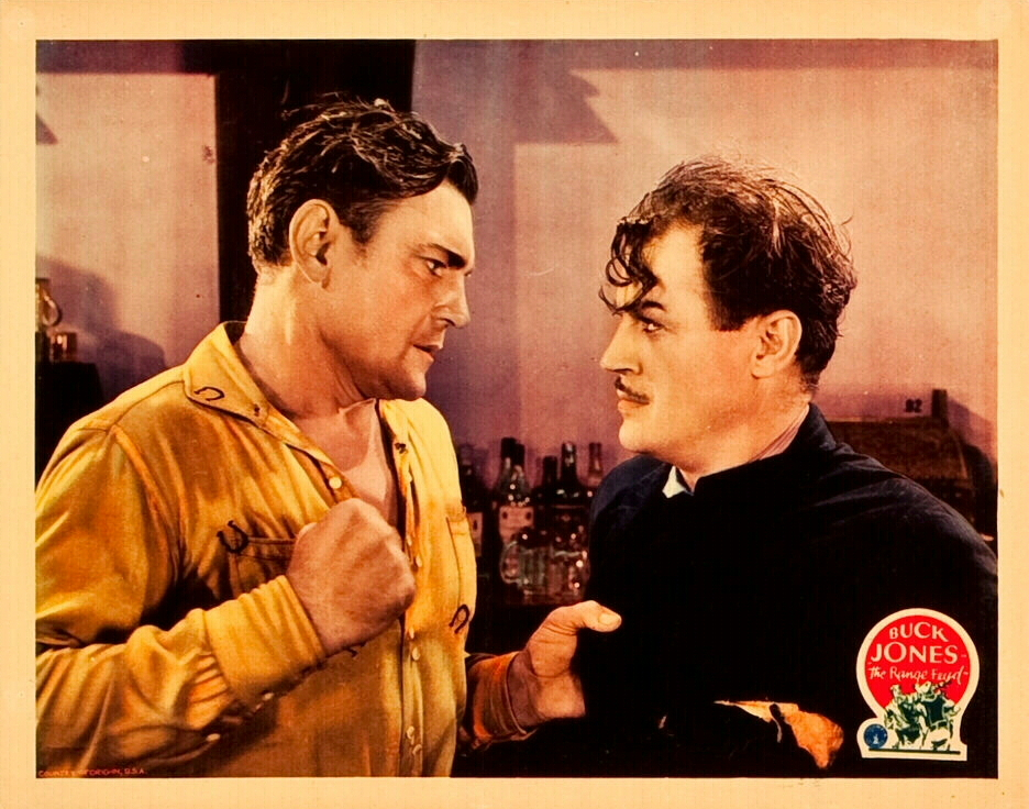 Buck Jones (left) and Harry Woods in the American western film The Range Feud (1931) - lobby card